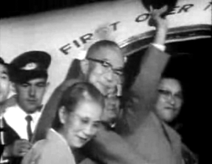 Japanese Prime Minister Ichirō Hatoyama (1883–1959, in office 1954–56), with his wife Kaoru, en route to Moscow to sign Soviet-Japanese Joint Declaration of 1956.